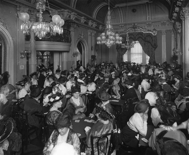 Photograph Card party, Lady Allan's group, Ravenscrag, Montreal, QC, 1914; 1914, 20th century; Silver salts on glass - Gelatin dry plate process; 20 x 25 cm; Purchase from Associated Screen News Ltd.; © McCord Museum